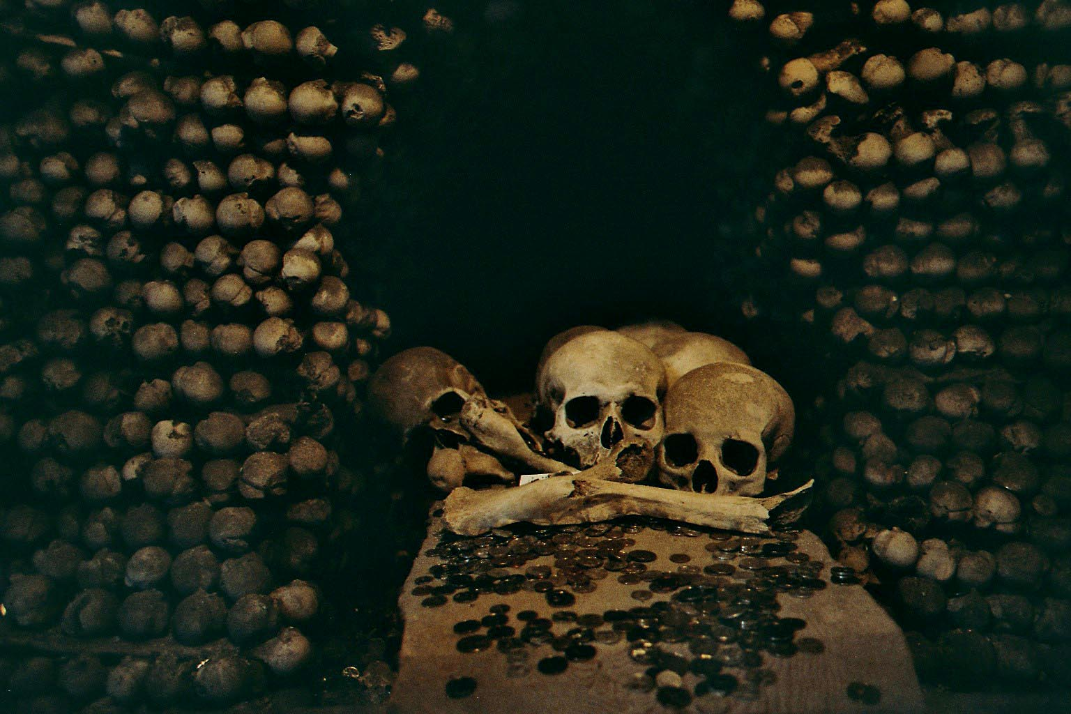 Sedlec Ossuary, near Kutná Hora, in the Czech Republic. (Photograph taken by Dsch67, August 10th 2004) Ossuaire de Sedlec, près de Kutná Hora, en République Tchèque. (Photographie prise par Dsch67, le 10/08/2004)